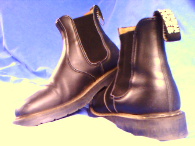 A pair of slightly used Chelsea boots made by Vegetarian Shoes of Brighton, England